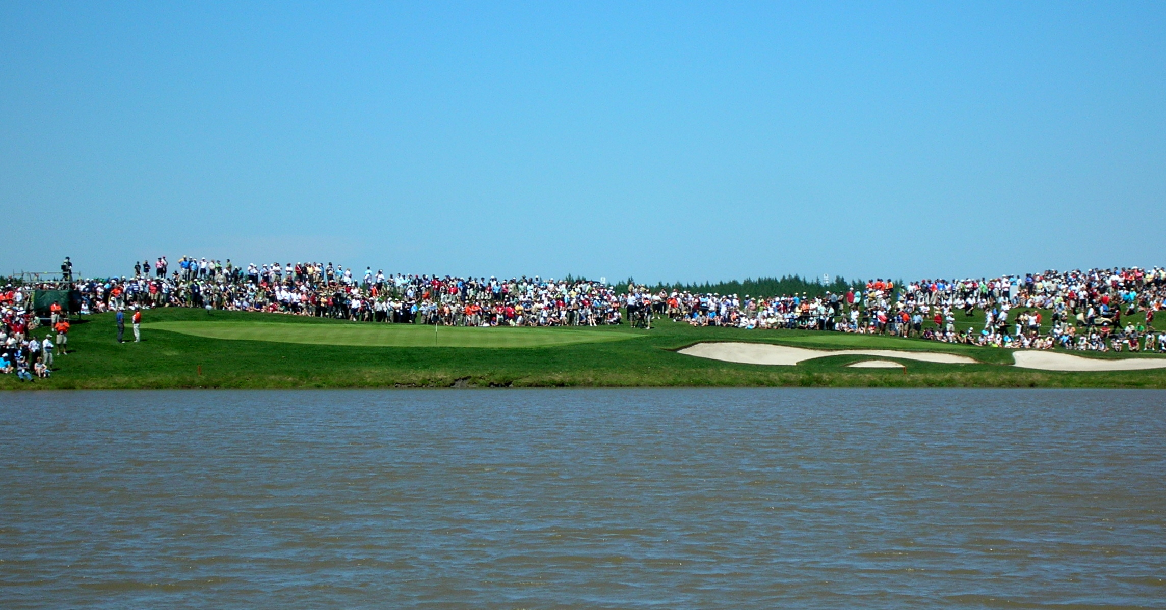 Hole #8, Telus World Skins Game, La Tempête Golf Club, Lévis, province of Quebec, Canada